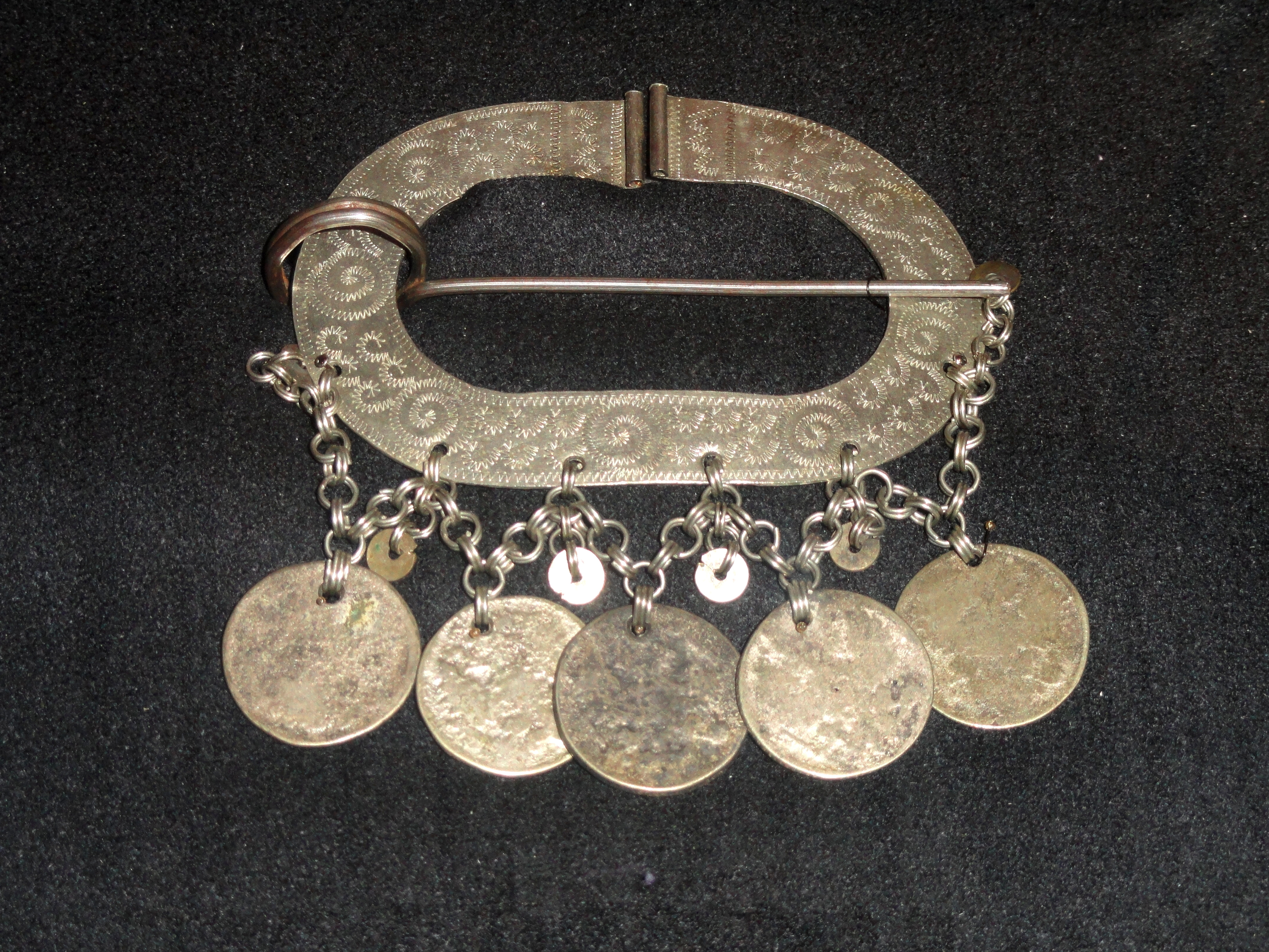 Exhibit in the Museum of Cultures, Helsinki, Finland.